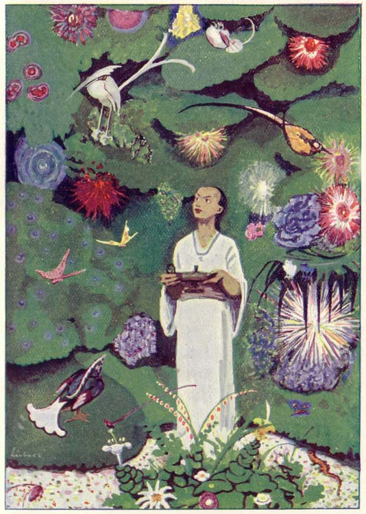 Aladdin in the Magic Garden.